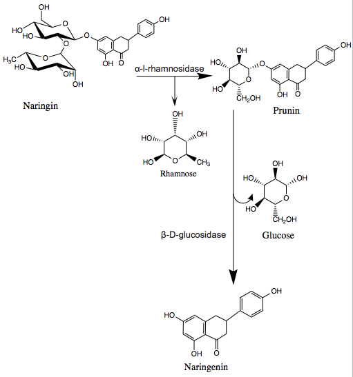 Naringenase hydrolysis of naringin to naringenin